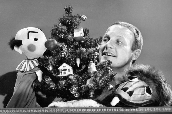 Publicity photo of Burr Tillstrom, Kukla and Ollie from the television program Burr Tillstrom's Kukla and Ollie.